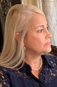 Finally back on American soil - San Juan, Puerto Rico! Stopping here this weekend to get a quick update on the harm of Trump’s continued refusal to release reconstruction money to Puerto Rico. Here chatting w the new governor, Wanda Vasquez.